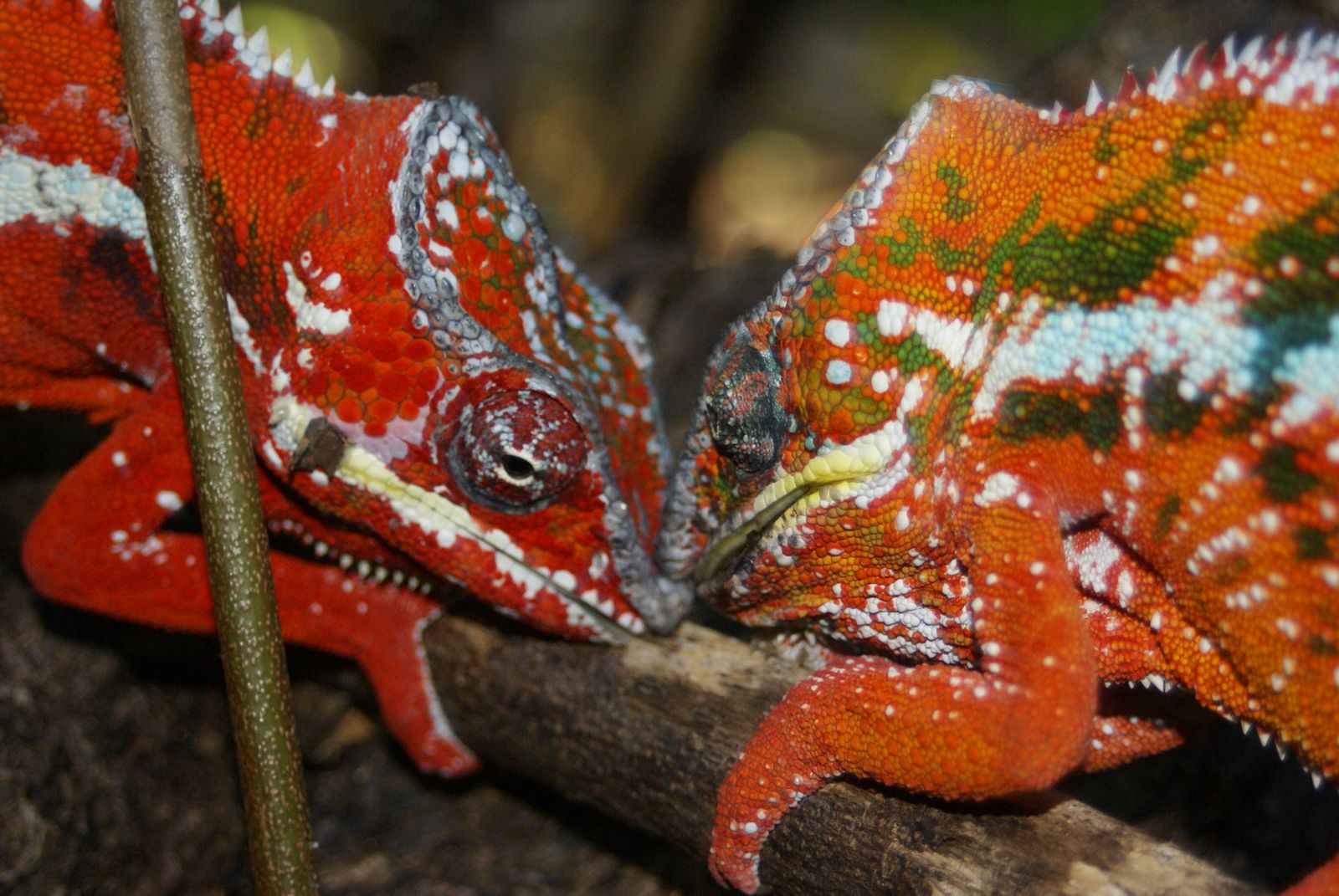 Furcifer pardalis - Panther chameleo - Fight